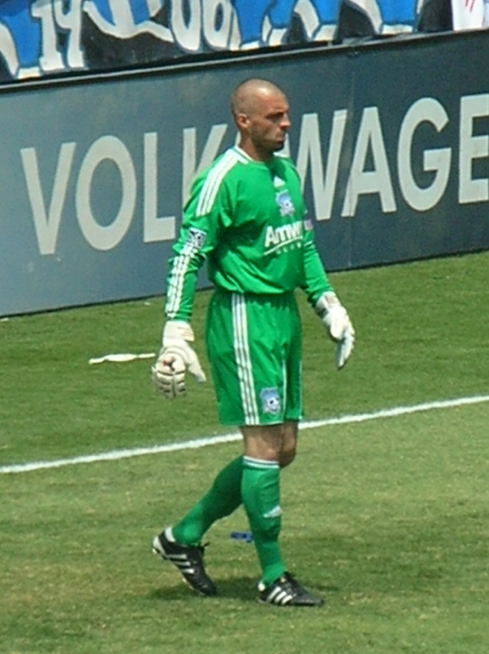 San Jose Earthquakes goalkeeper Jon Busch at a home game against the LA Galaxy. The Earthquakes won 1-0.